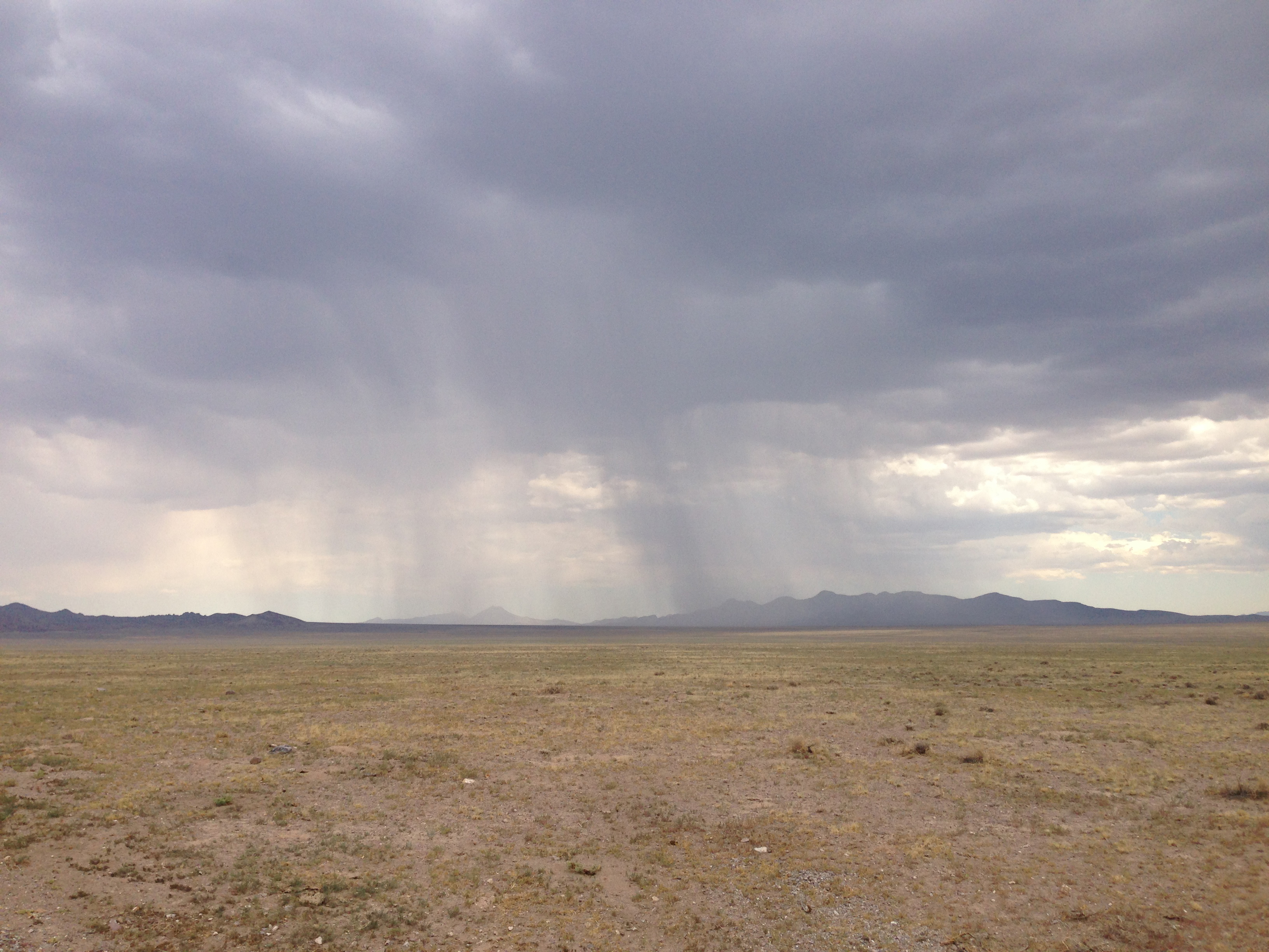 Thunderstorm near the south end of Railroad Valley, Nevada